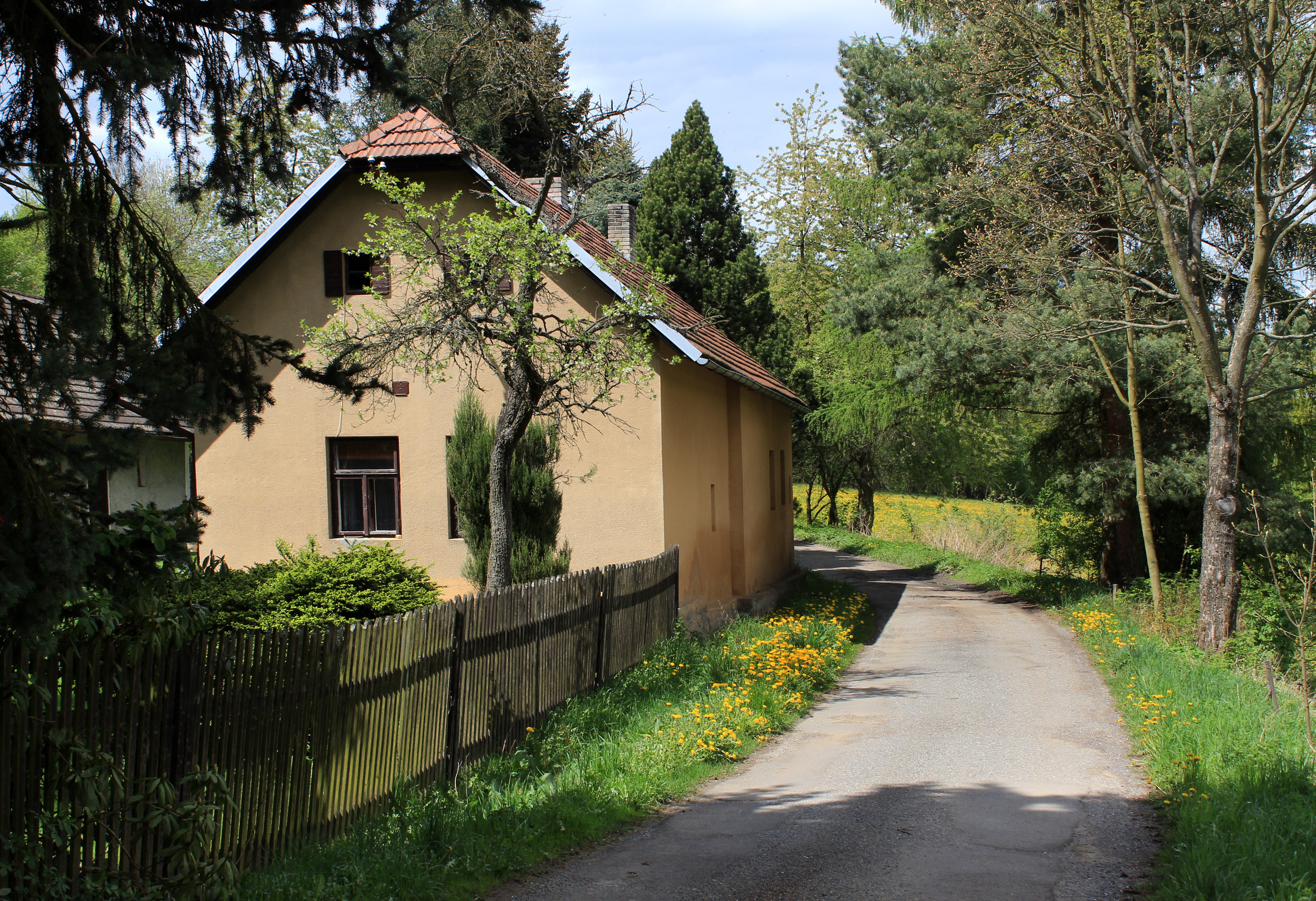 House No. 1 in Horní Dobřejov, part of Střezimíř, Czech Republic.